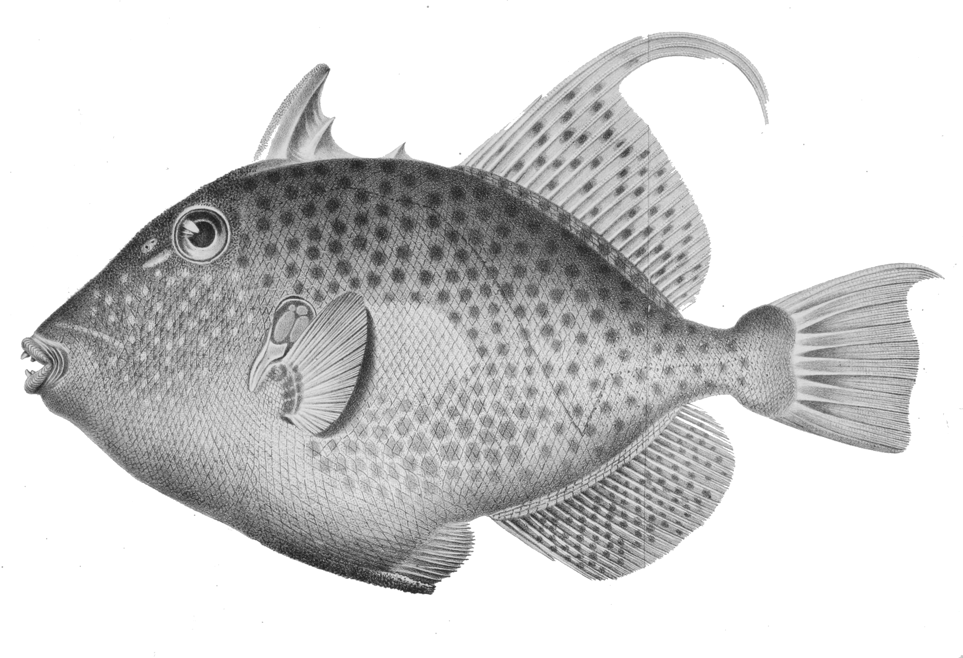 Balistes punctatus